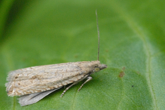 Picture taken in Commanster, Belgian High Ardennes . Species: Epinotia sordidana